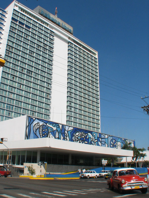 my stuff